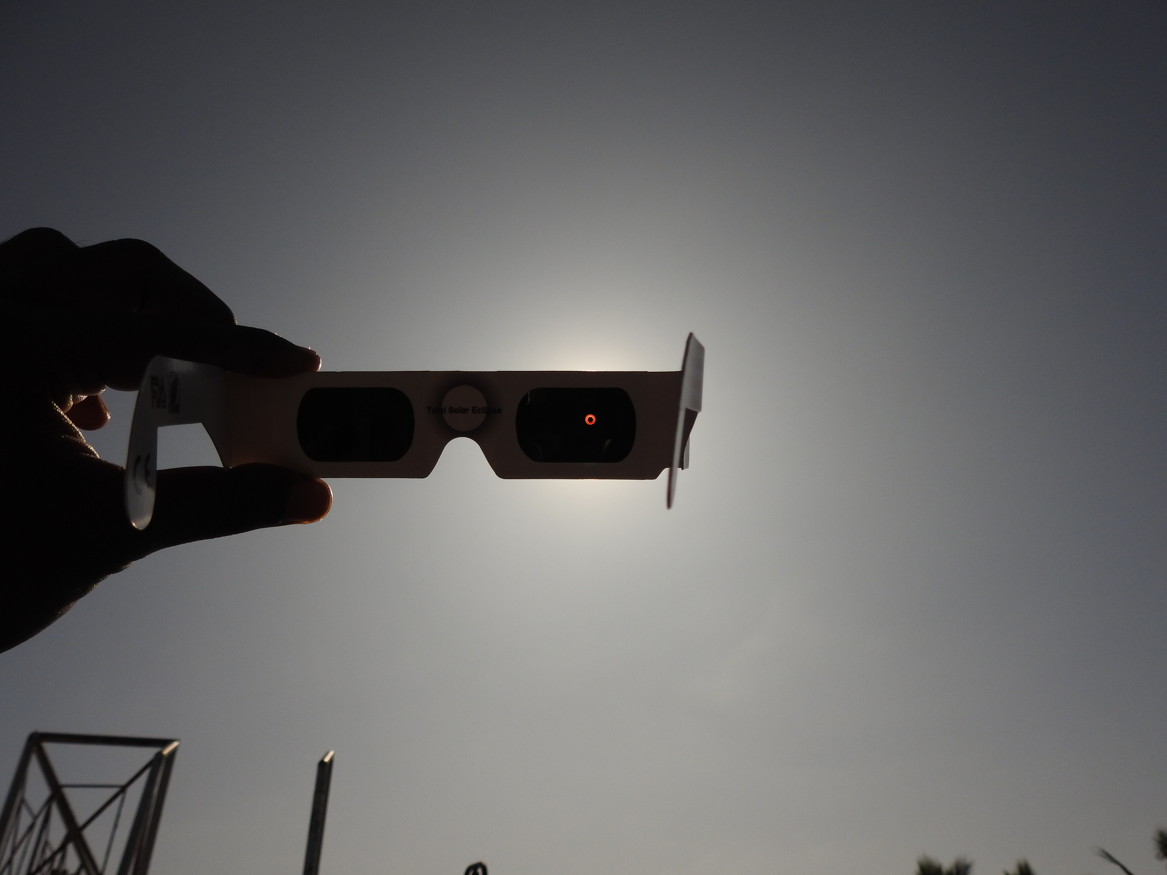 The annular solar eclipse of 26 December 2019, as seen from Jaffna, Sri Lanka.